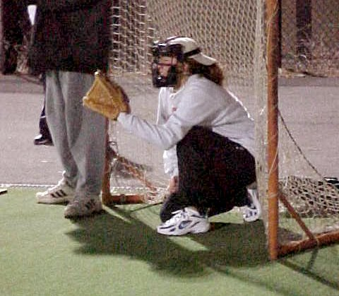 Catcher at a James Madison University intramural softball team.